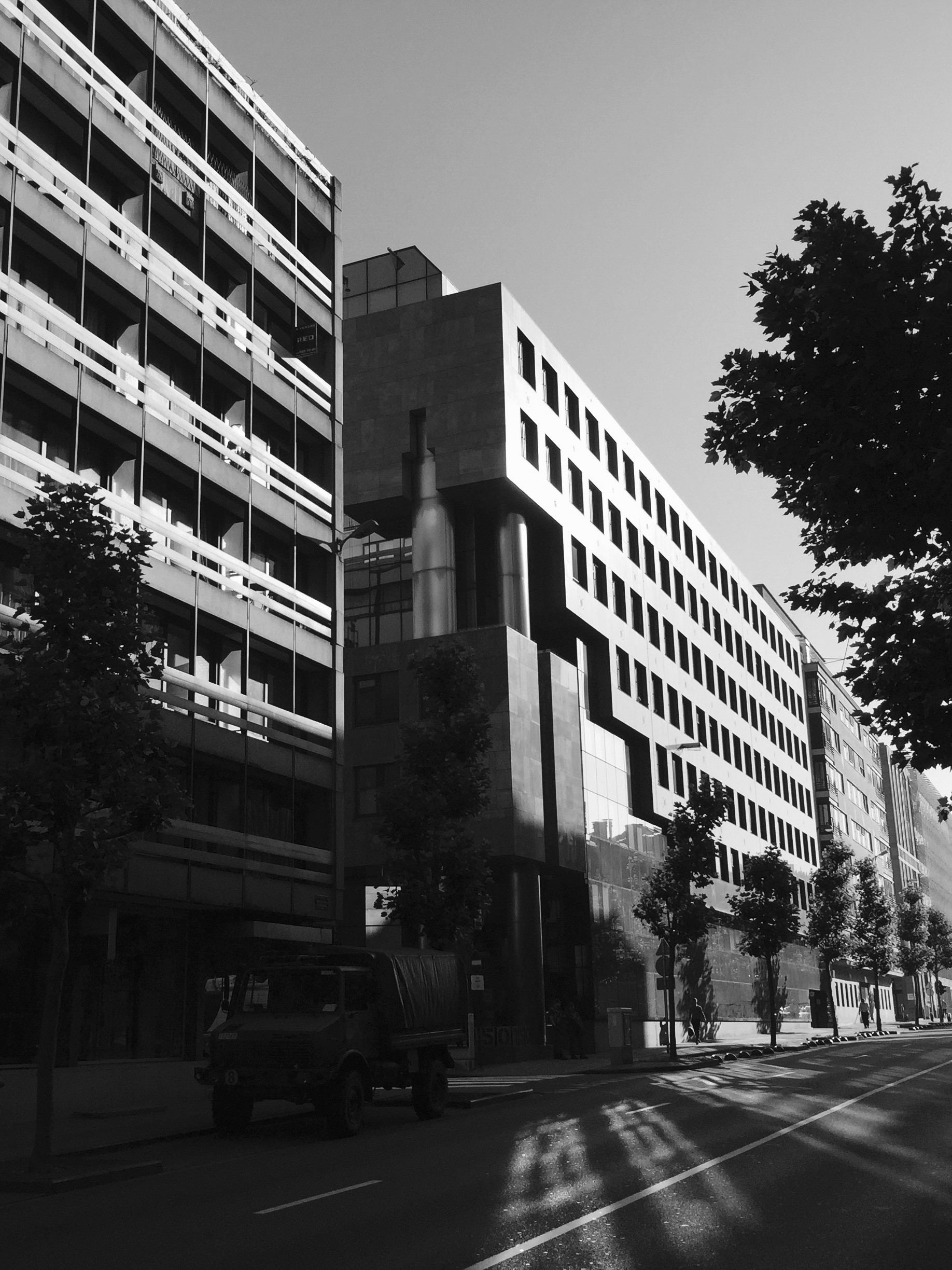 Kortenbergh 150, where the EU Military Staff is headquartered